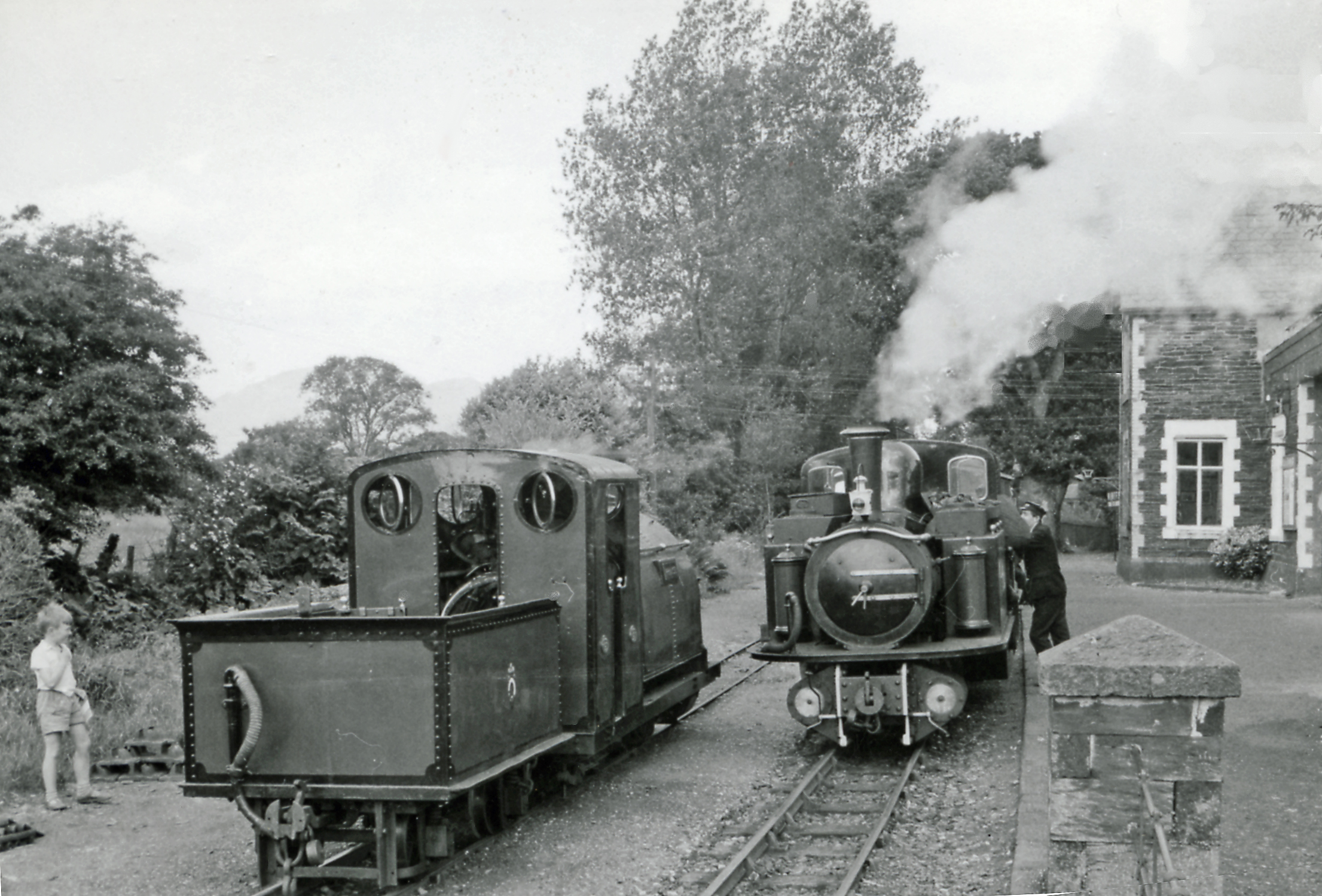 Two Ffestiniog locomotives at Minfford, 1964. View east, towards Tan-y-Bwlch - much later to Blaenau Ffestiniog. On the left is 0-4-0T No. 2 'Prince', facing is Fairlie 0-4-4-0T No. 10 'Merddin Emrys'.